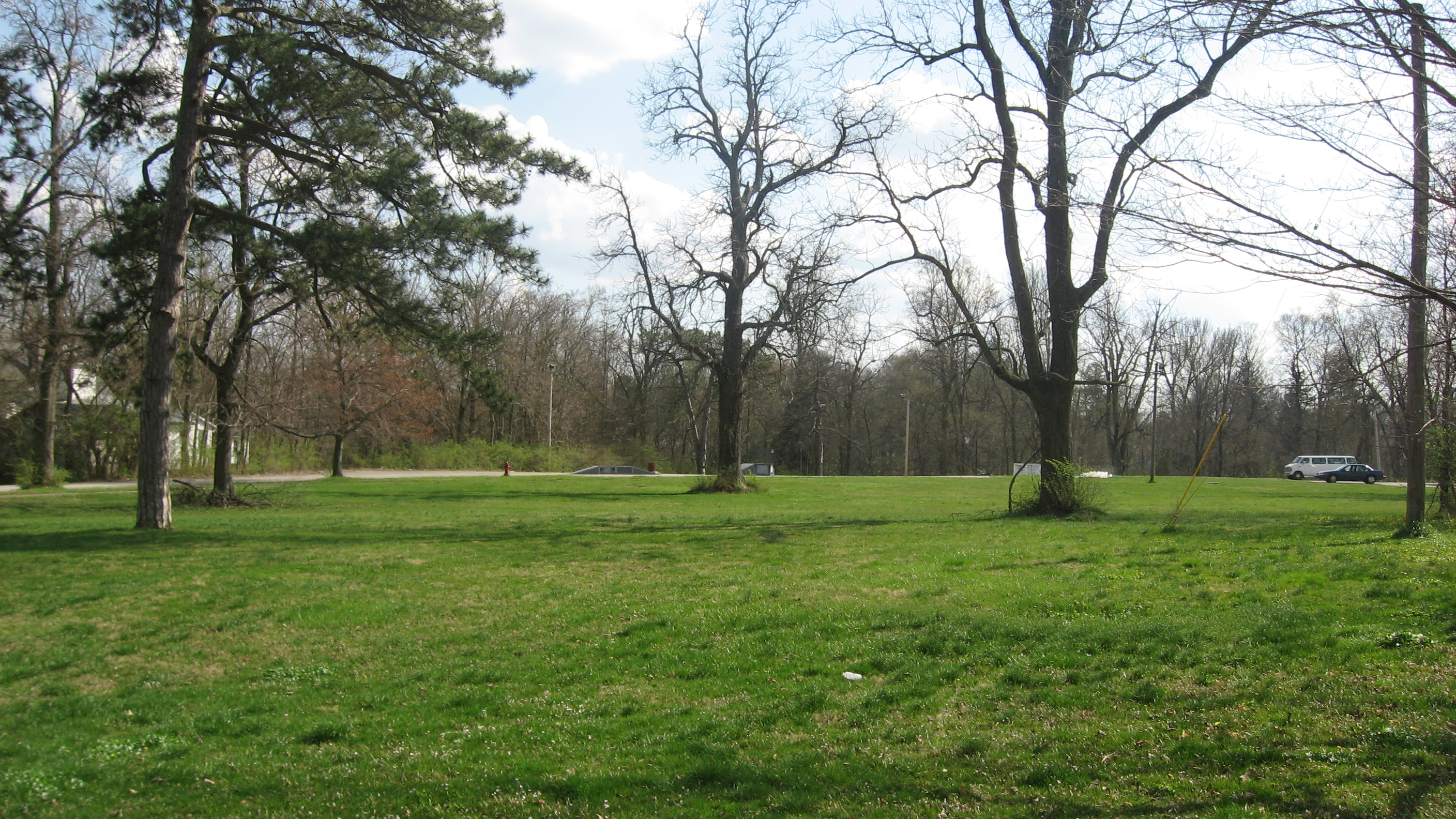 Overview of the site of the Main Building School, located along West Sugartreet Street in Wilmington, Ohio, United States. Built in 1869 and no longer standing, it is listed on the National Register of Historic Places.